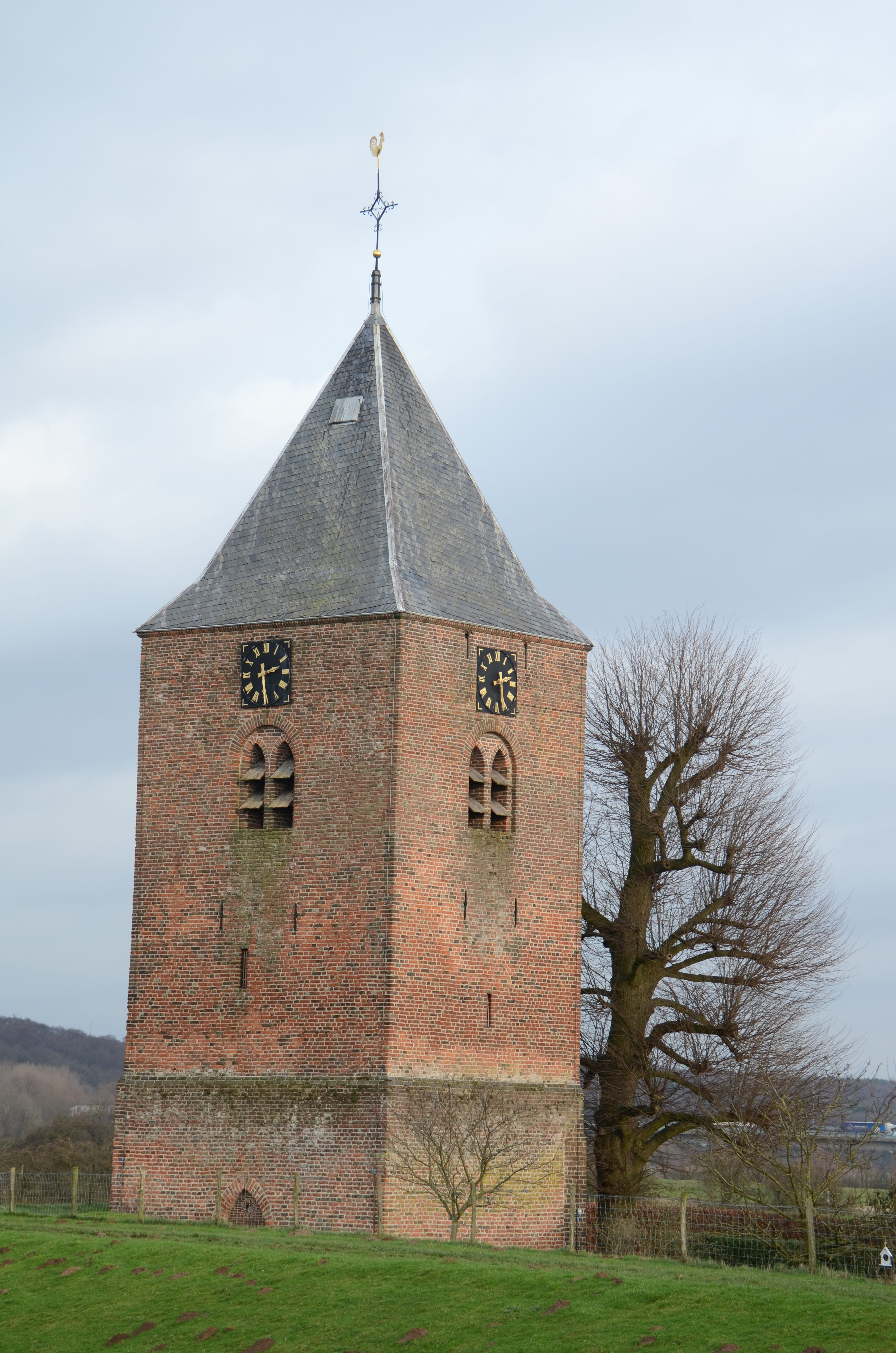 The historic brickwork tower of the church of Heteren at 8 Januari 2014